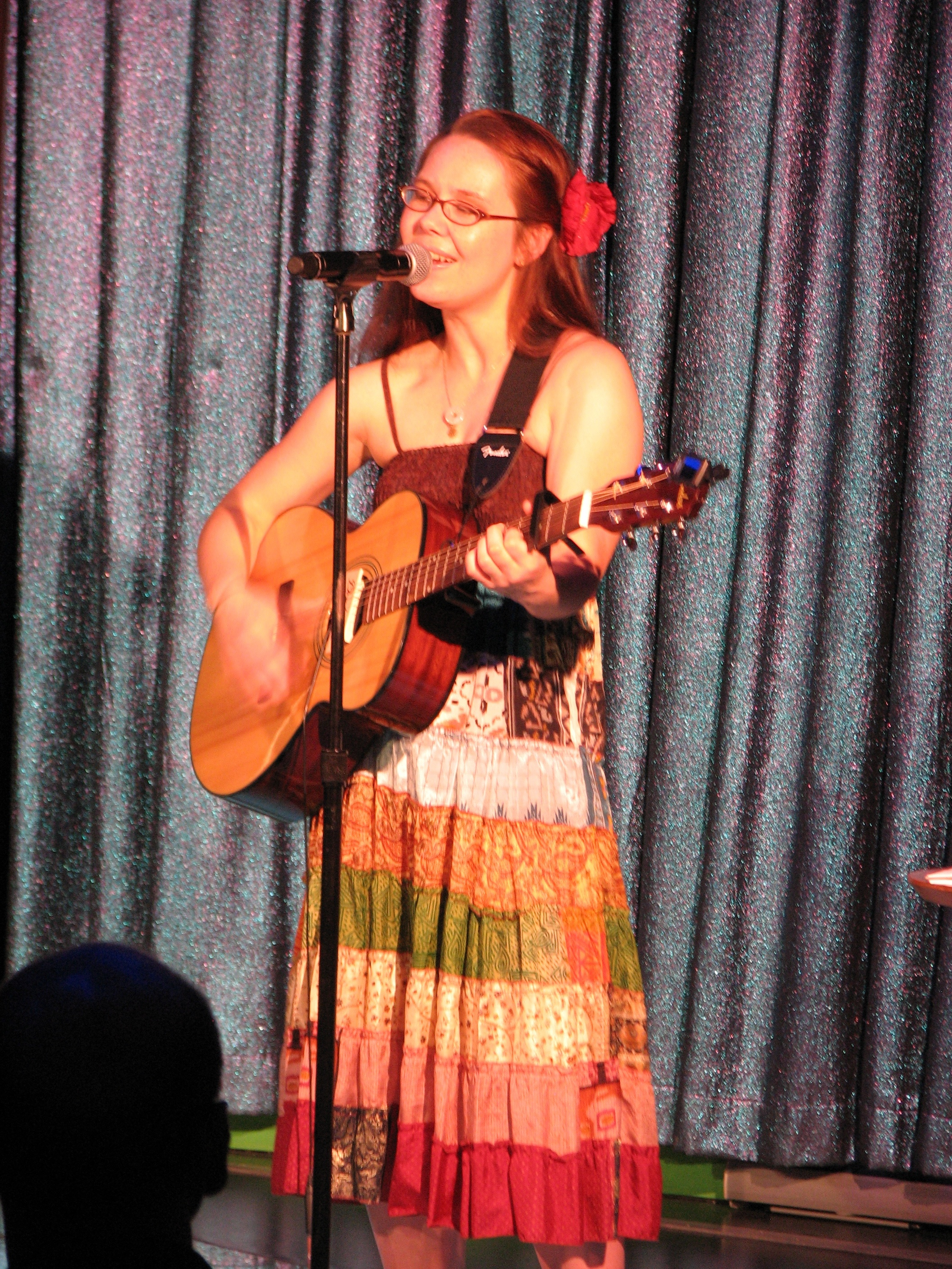 Nerd-Folk musician Nicole Dieker performs as Hello, The Future! during the third annual JocoCruiseCrazy (a nerd-music/comedy cruise) in February 2013. She is singing and playing a guitar on stage behind a microphone stand.